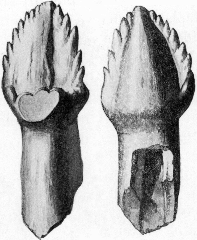 Tooth of Ankylosaurus (specimen AMNH 5895) in outside and inside view.